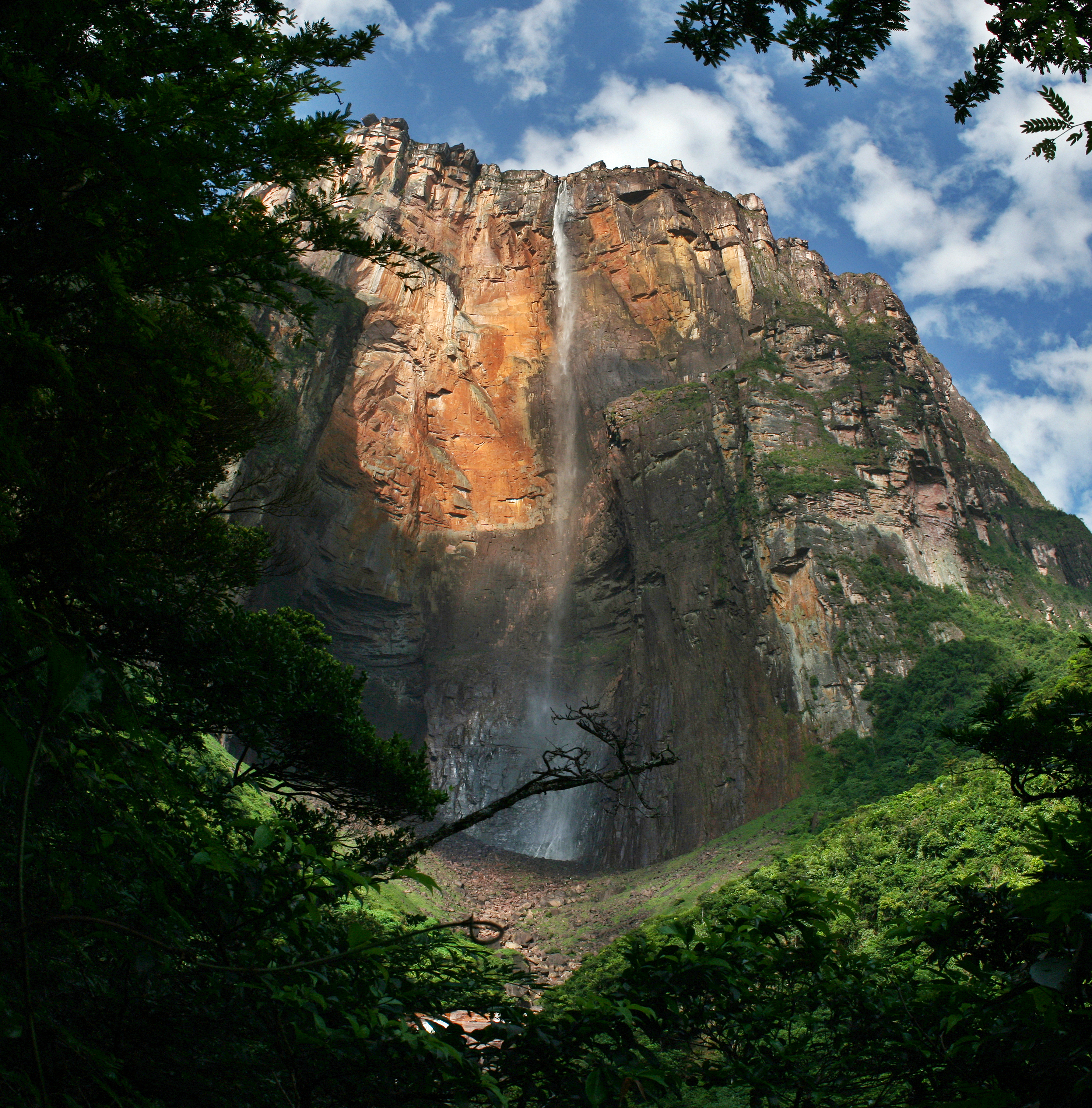 View of the Salto Angel (Angel Falls, named after Jimmie Angel) from the path overlooking the right bank of the creek created by the falls. Picture taken during dry season, when the falls have a small discharge. Angel Falls are the highest falls on earth. They are 979m high, including a 807m free fall.